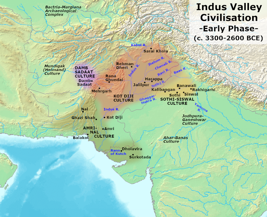 Sources: McIntosh, Jane (2008). The Ancient Indus Valley: New Perspectives. ISBN 978-1-57607-907-2. Background from Made with GIMP